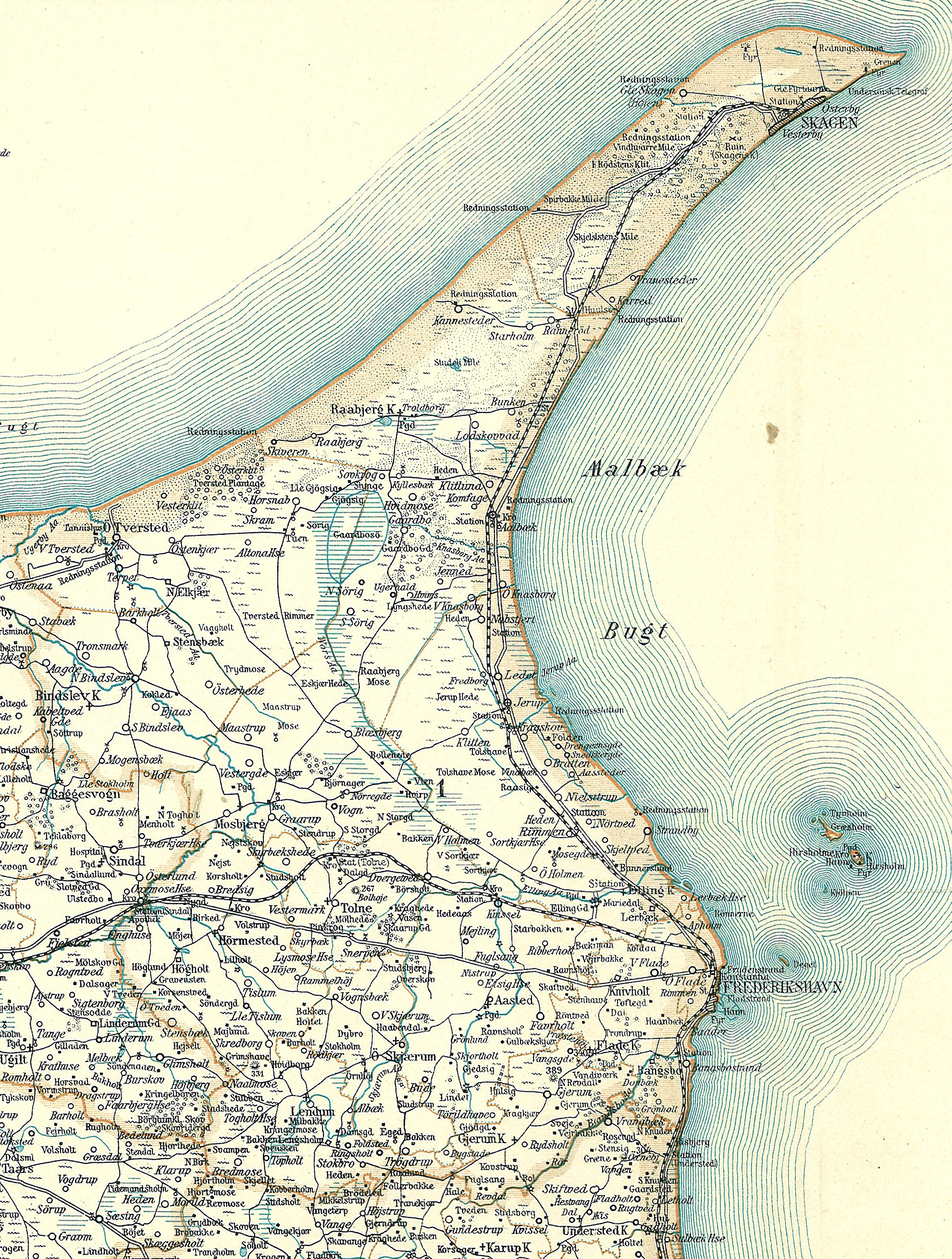 Map of Horns Herred Hjørring County in Denmark